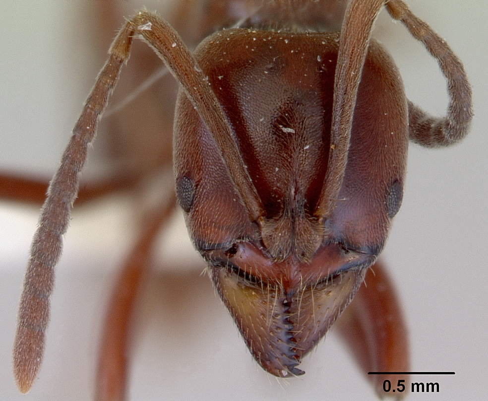 Head view of ant Pachycondyla castaneicolor specimen casent0172339.